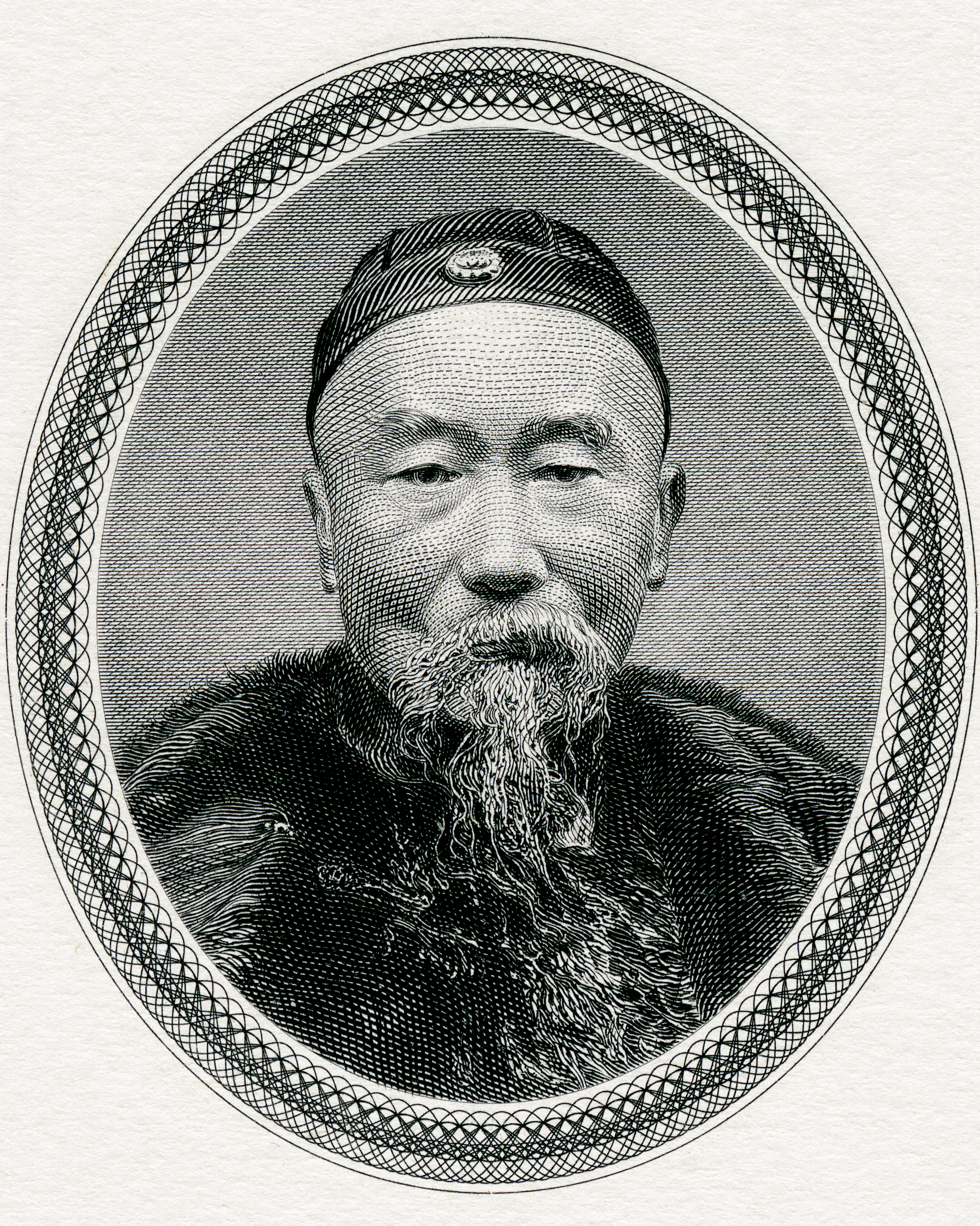 Engraved portrait of Li Hongzhang (aka Li Hung Chang) by American Bank Note Company engraver Charles Skinner (1841–1932).This portrait was used for the Ta Ch’ing Government Bank Series of 1909 (China).